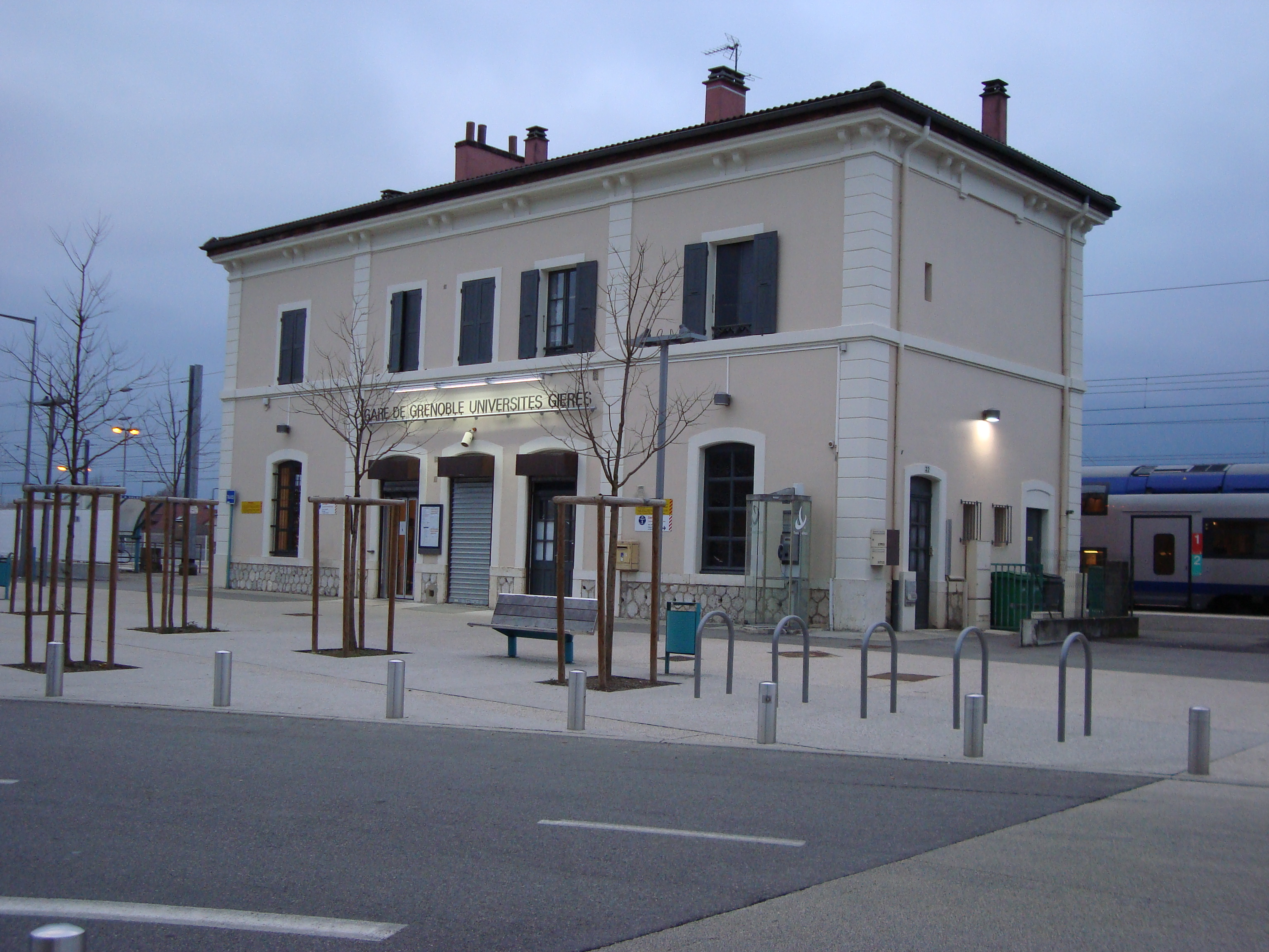 The front of the Gare de Grenoble-Universités-Gières?